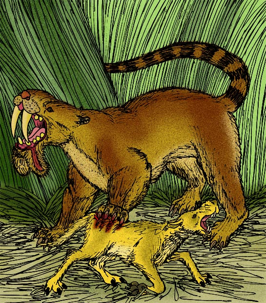 My reconstruction of the carnivorous South American marsupial, Thylacosmilus atrox, shown here seizing the notoungulate Mesotherium. (C) Stanton F. Fink